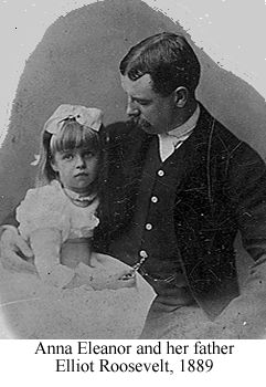 Eleanor Roosevelt and her father, Elliott Roosevelt I, Theodore Roosevelt's brother in 1889.